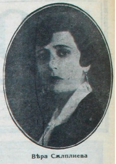 Bulgarian actress Vyara Salplieva-Staneva